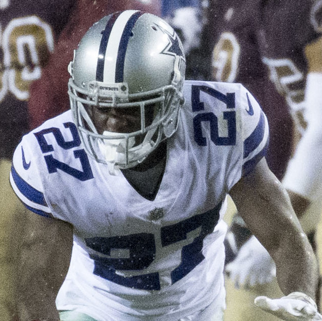 Cowboys at Redskins 10/29/17